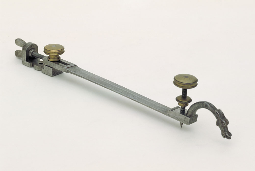 AuthorFrancesco ComelliDescription